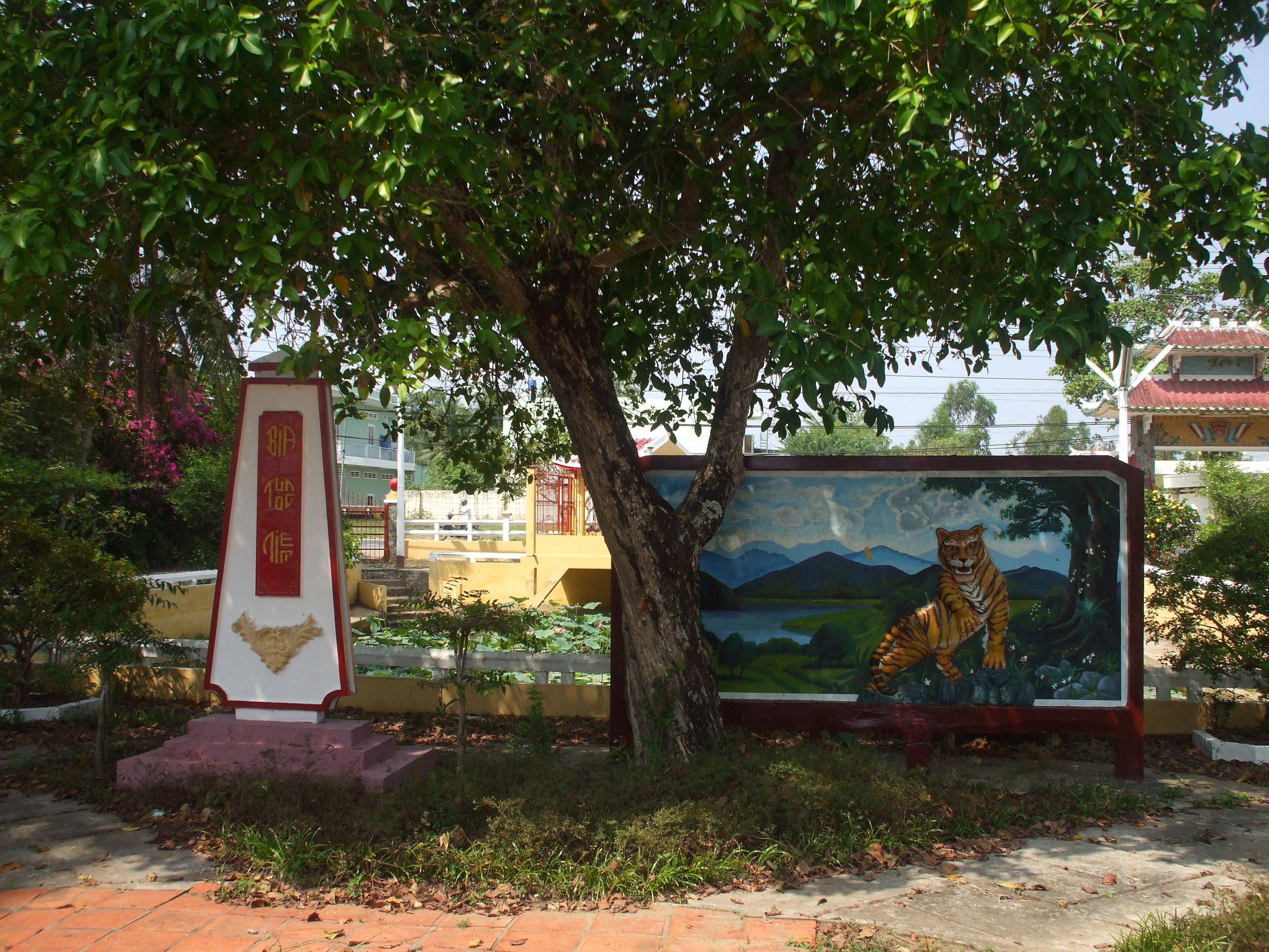 Memorial to Nguyen Hien Dieu, Kien Giang province, Vietnam